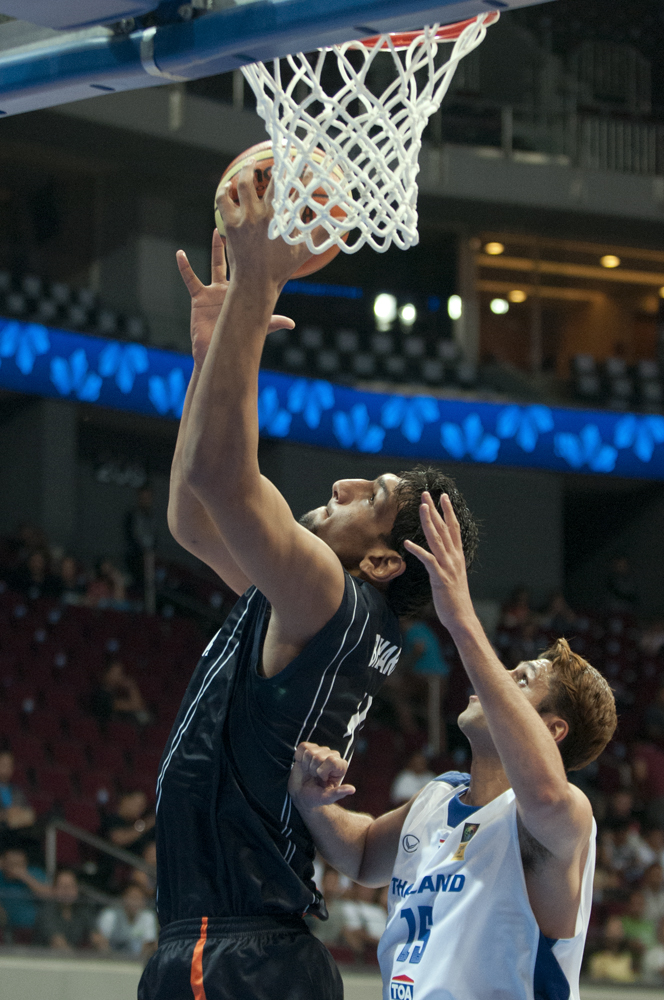 Satnam Singh Bhamara playing for the Indian national men's basketball team.